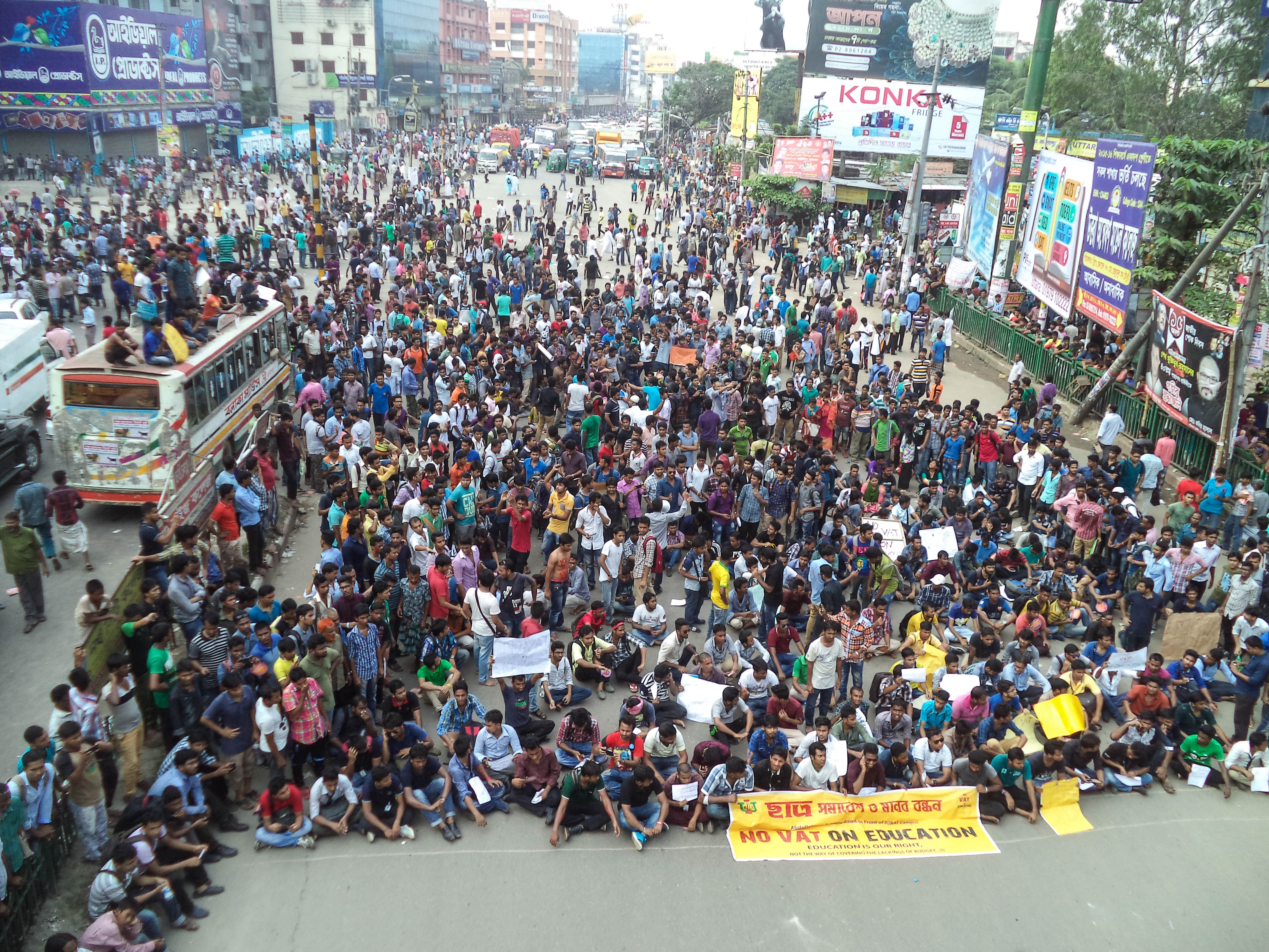 Students of private universities in Bangladesh are demonstrating in different parts of Dhaka on Thursday (September 10, 2015) protesting the 7.5 percent VAT on their tuition fees.